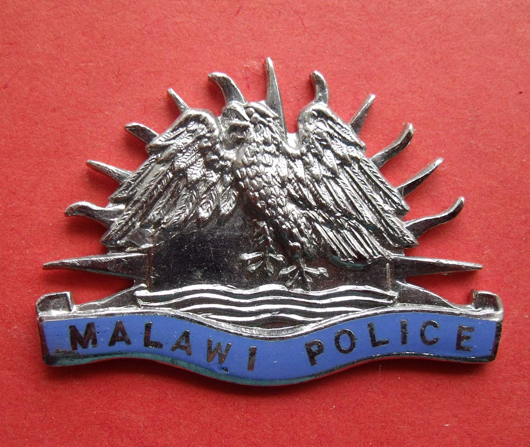 Part of my International Law enforcement badge collection Malawi, is a landlocked country in southeast Africa that was formerly known as Nyasaland until 1964.